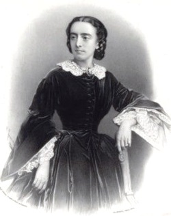 Lithograph portrait of the French opera singer Caroline Vandenheuvel Duprez (1832-1875) after a photograph by Léon Crémière